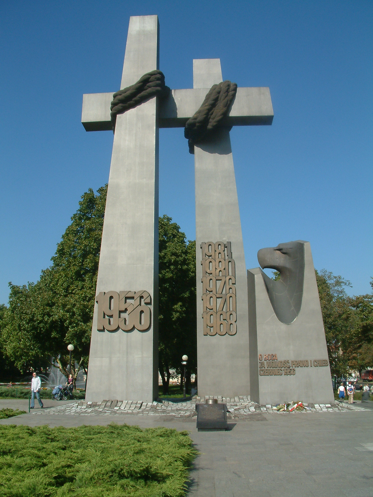 Monument of vicitmes of events of June 1956, Poznań